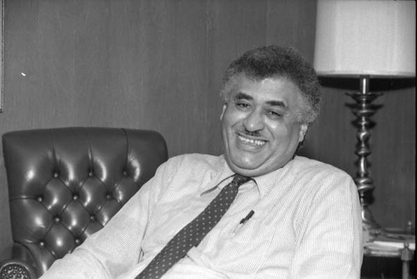 FAMU President Frederick Humphries - Tallahassee, Florida.